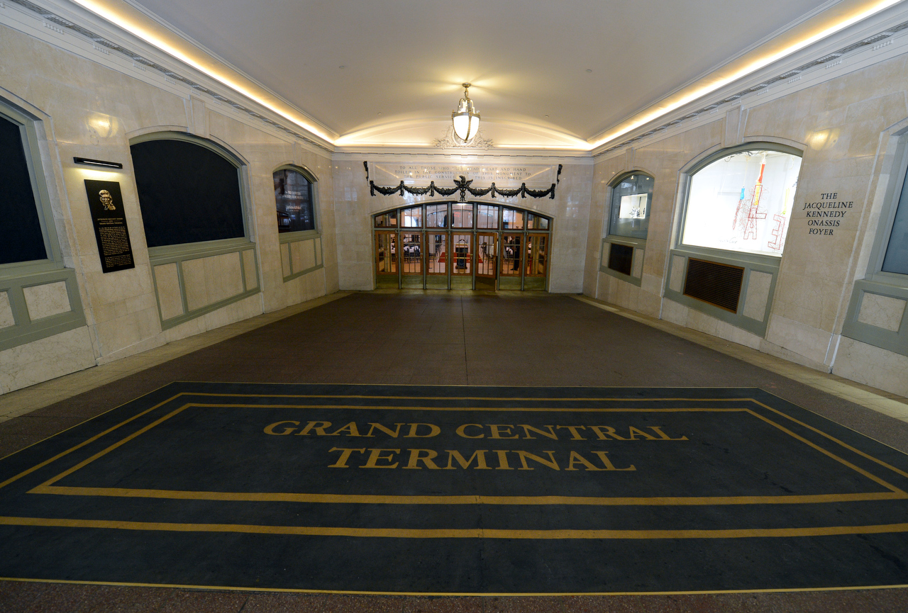 A ceremony was held at Grand Central Terminal on Mon., June 30, 2014 to dedicate the Jacqueline Kennedy Onassis Foyer, leading to Vanderbilt Hall from 42nd Street, in honor of the work done by the former first lady to preserve the iconic landmark. Photo: Marc A. Hermann / MTA New York City Transit